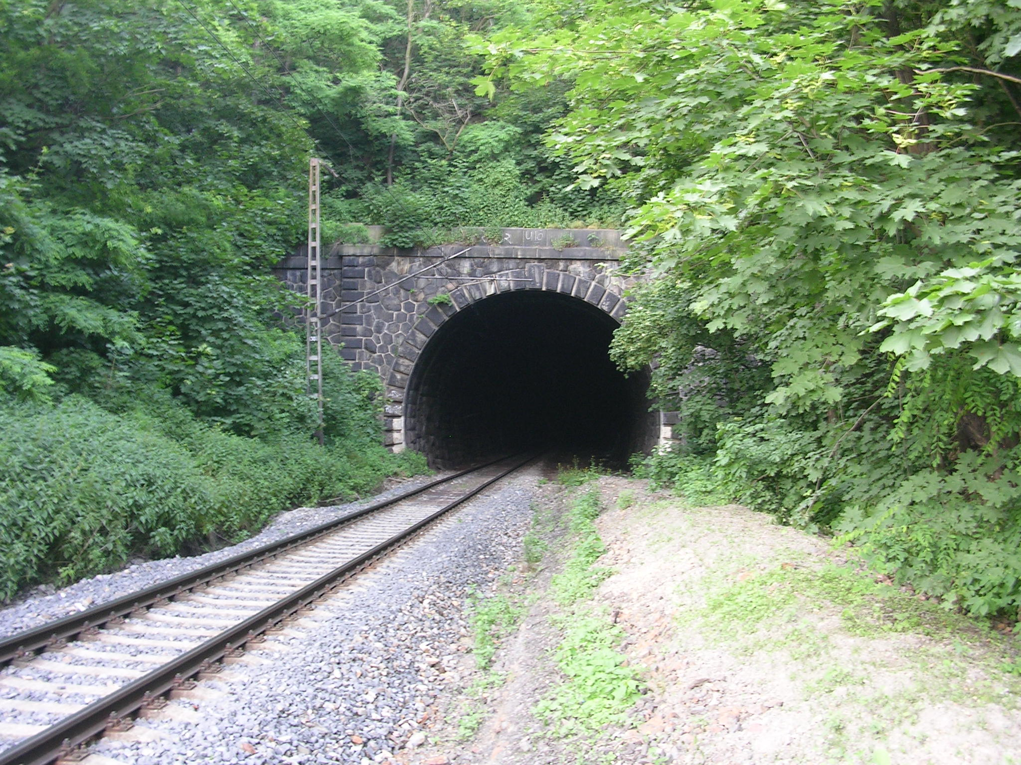 Malešice, Prague, the Czech Republic.